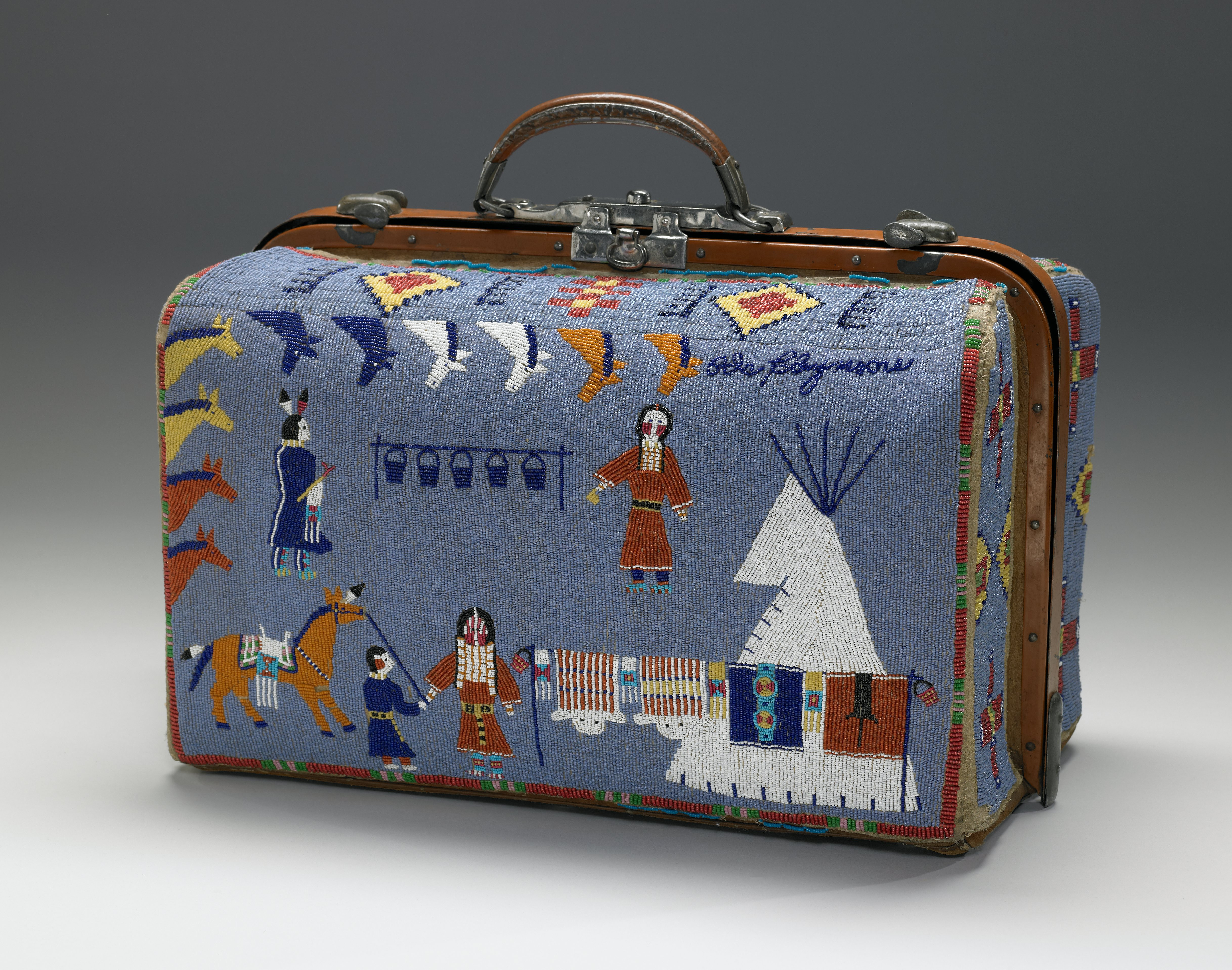 A beaded suitcase, created ca. 1880-1910 by Nellie Two Bear Gates for the marriage of Ida Claymore, her relative.